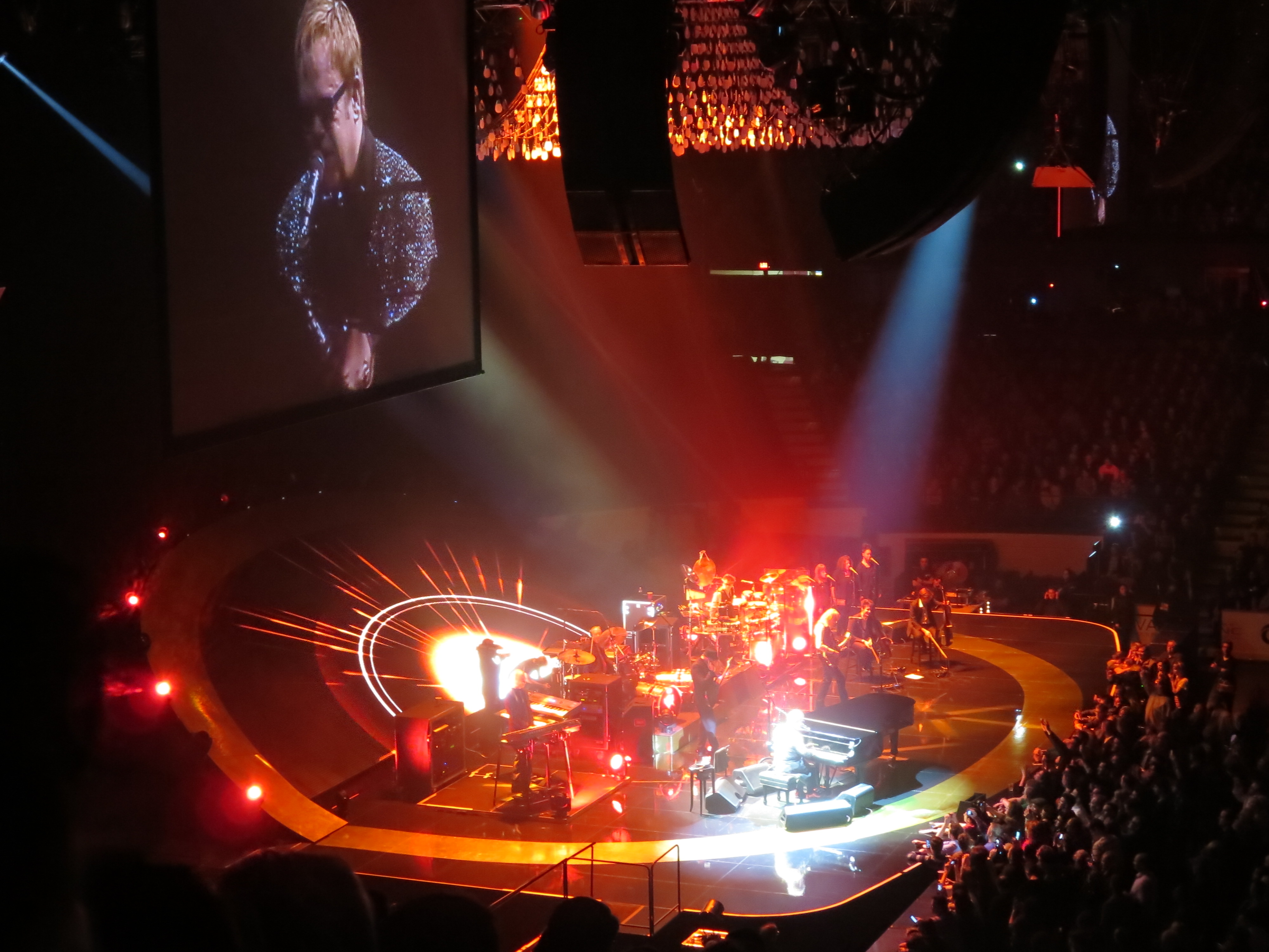 Elton John @ Allstate Arena, Chicago 11/30/2013